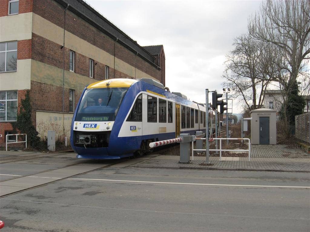 Train station Quedlinburg: at streetcrossing Stresemannstraße, trains comes from Thale, going on towards Magdeburg